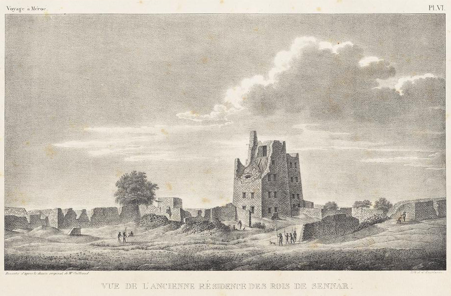 The ruined palace of Sennar at the time of Ottoman conquest (1821).